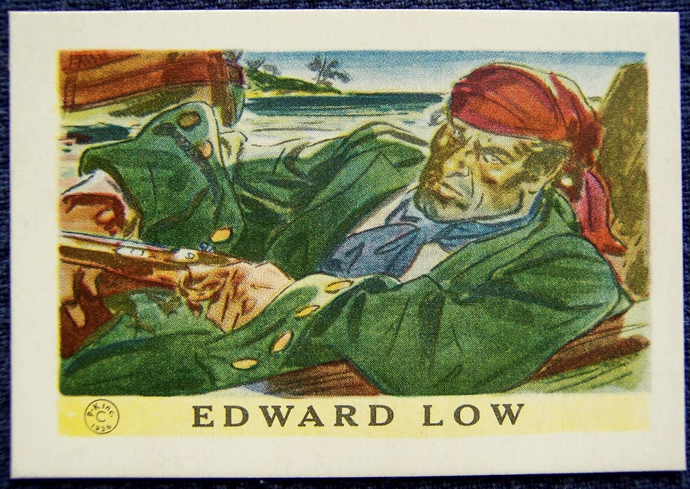 A scan of a 1936 Jolly Roger Cups Pirate card of the pirate Edward Low.